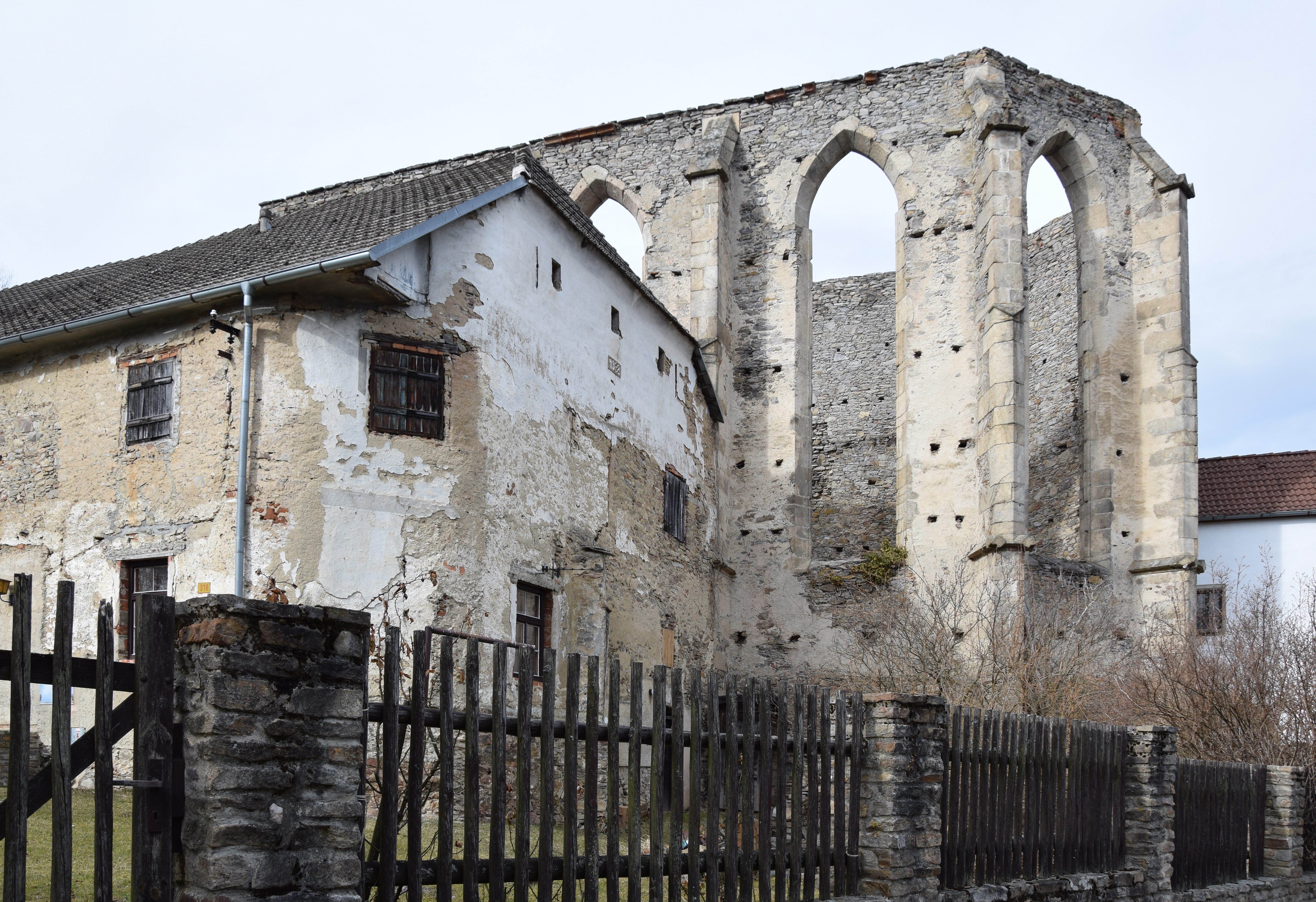 Paulians' monastery and St Andrew church in Kuklov, district Český Krumlov, the Czech Republic.